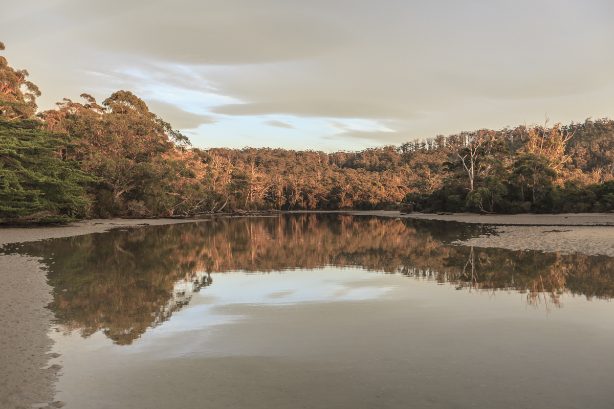 Cockle Creek is a tiny settlement in Tasmania, the farthest point south one can drive in Australia. There are no shops or other facilities in the settlement, apart from a campground located in the National Park.